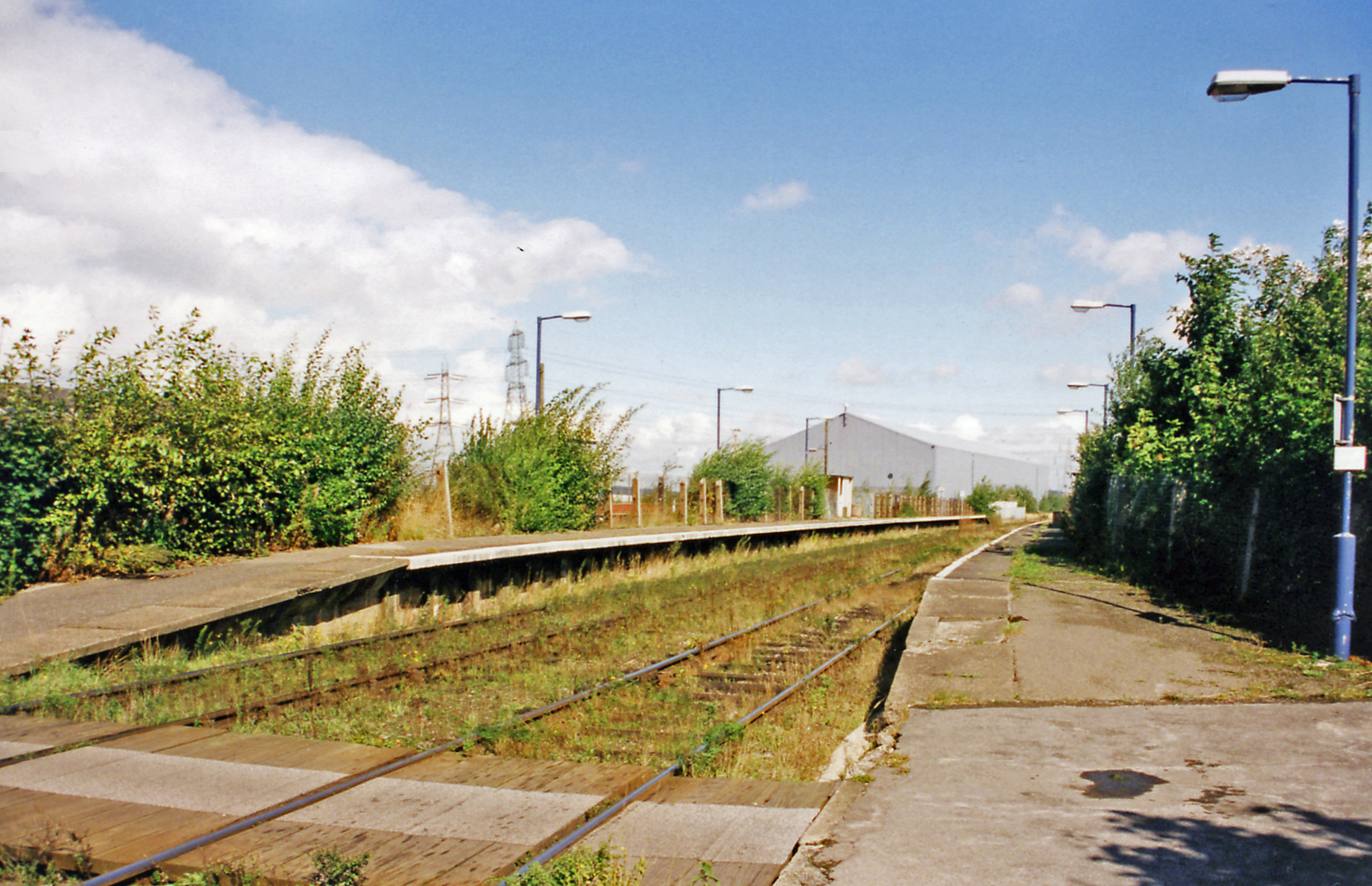 Hawarden Bridge station, 1999. View NE, towards Bidston ahead, Chester (formerly) to right: ex-GCR (Wrexham, Mold & Connah's Quay section), Wrexham (Central) - Bidston and Seacombe/Chester (Northgate, also by-passing the latter to Mouldsworth). Now called the Borderlands Line, the service runs from Wrexham (a new Central station) to Bidston; Bidston - Seacombe was closed 4/1/60 and the Chester line from 9/9/68. This station has since been renovated, cf. SJ3169 : Hawarden Bridge Station. Off to the left is/was the large John Summers Steelworks.